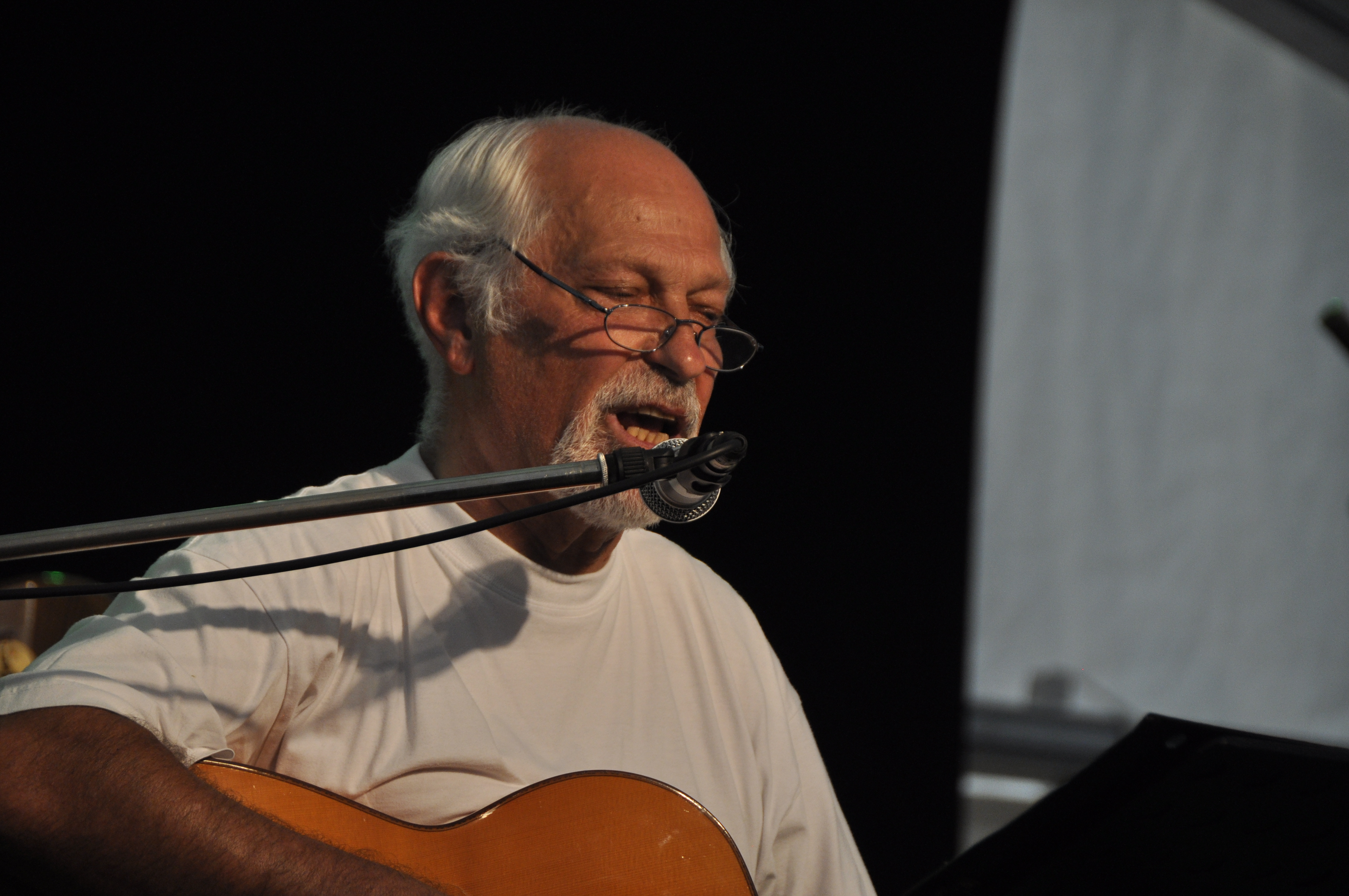 Songfestival 2014 Burg Waldeck, Germany, appearance: Black (Lothar Lechleiter)